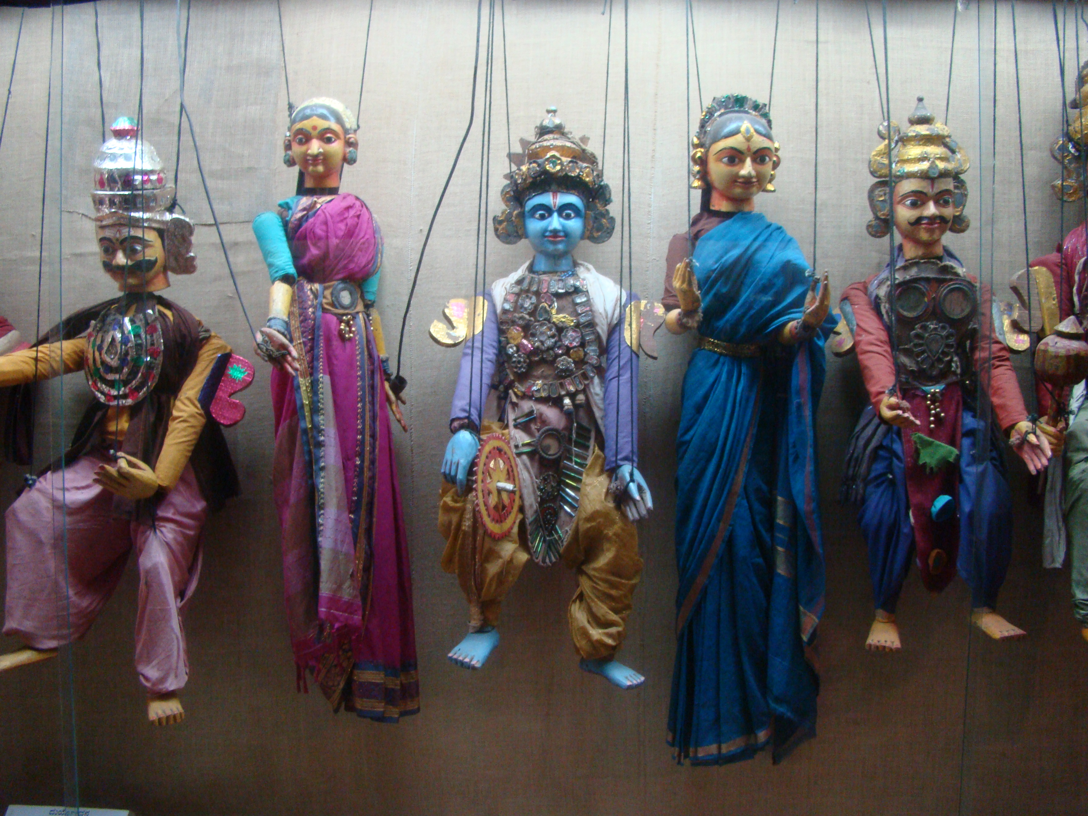 Puppets used in puppet shows on display in Janpada Loka {Folk art museum)